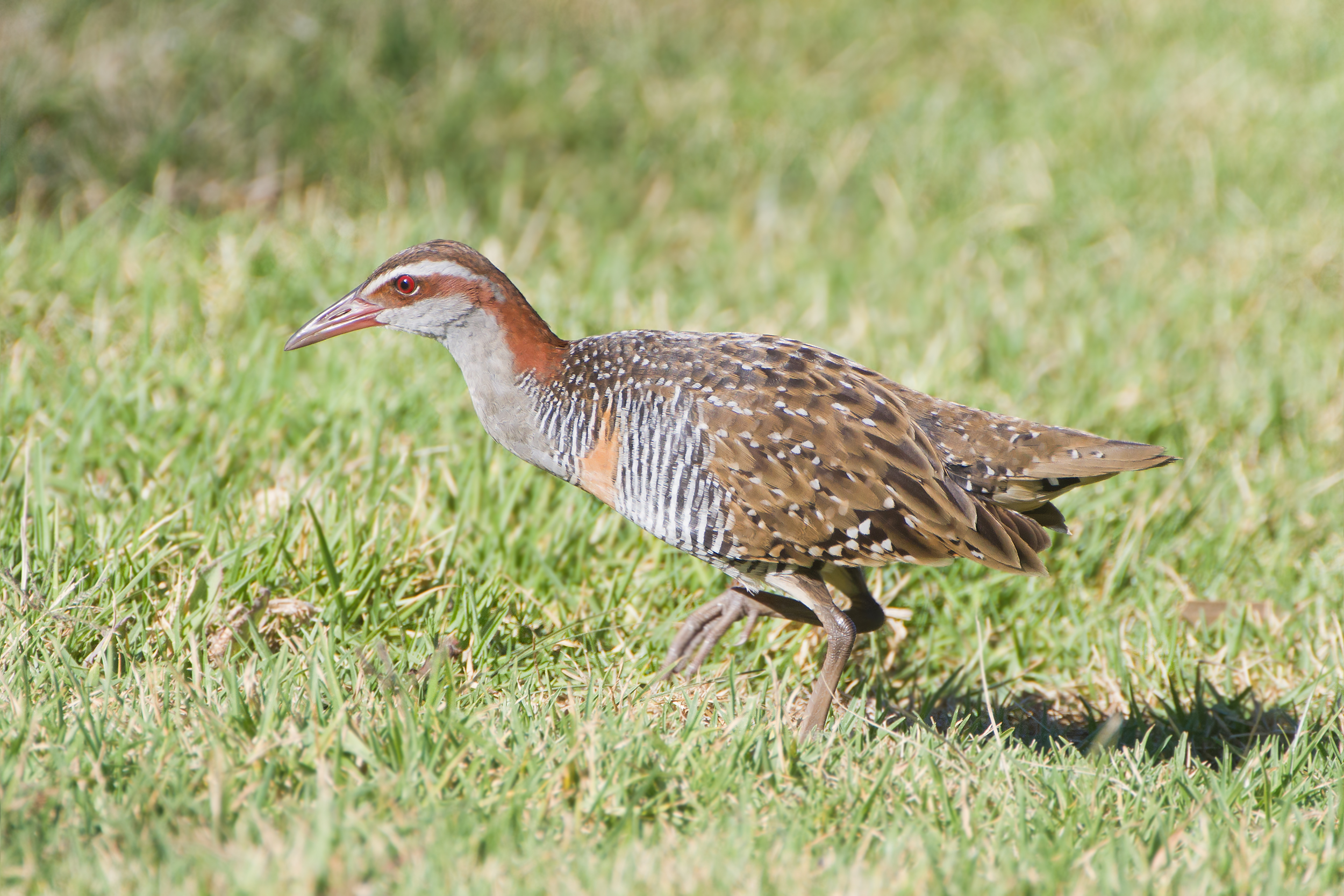 Buff-banded Rail (Gallirallus philippensis), Herdsman Lake, Perth, Western Australia, Australia